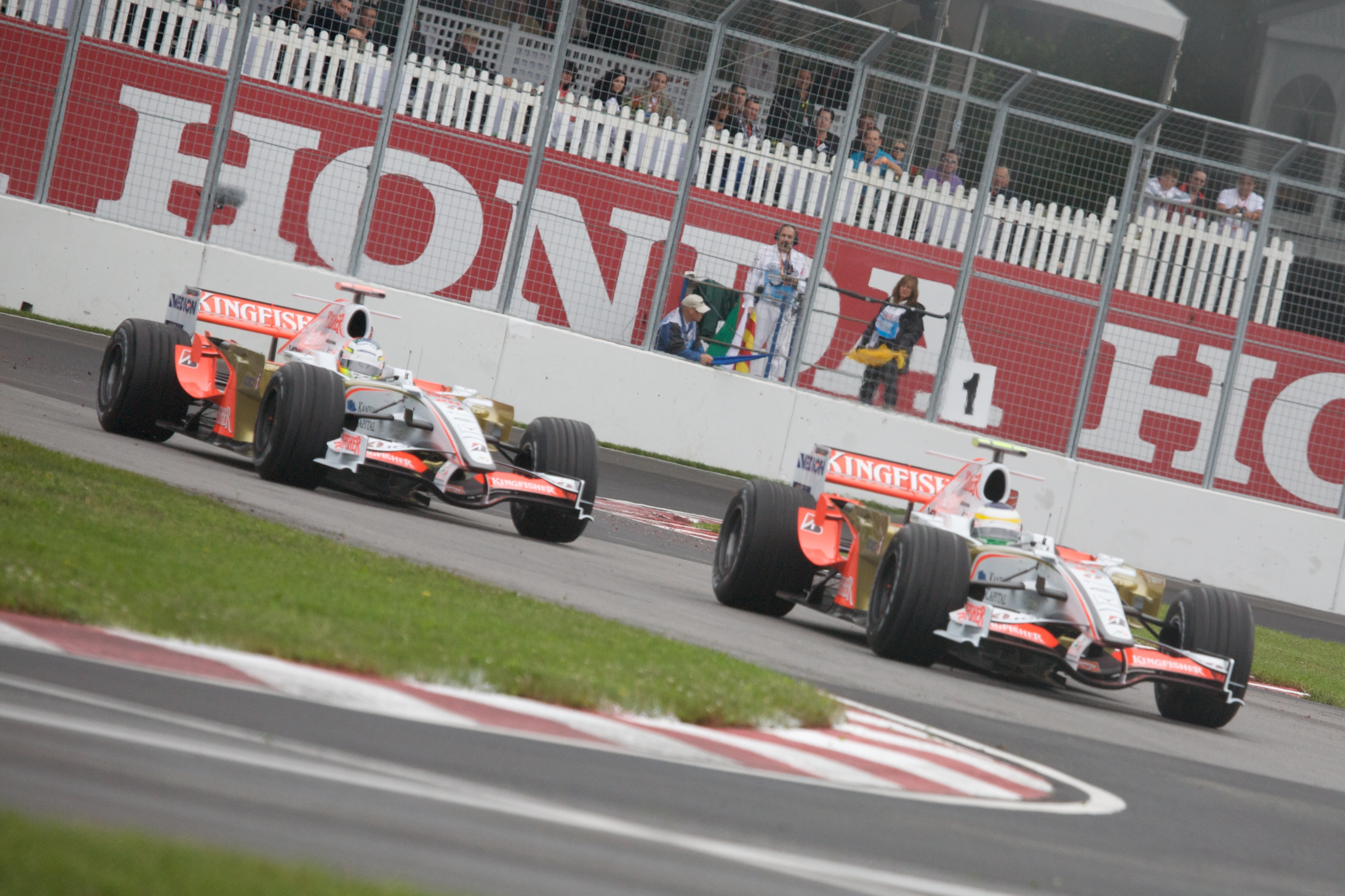 Force India at Canada